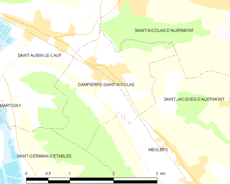 Map of French municipality Dampierre-Saint-Nicolas